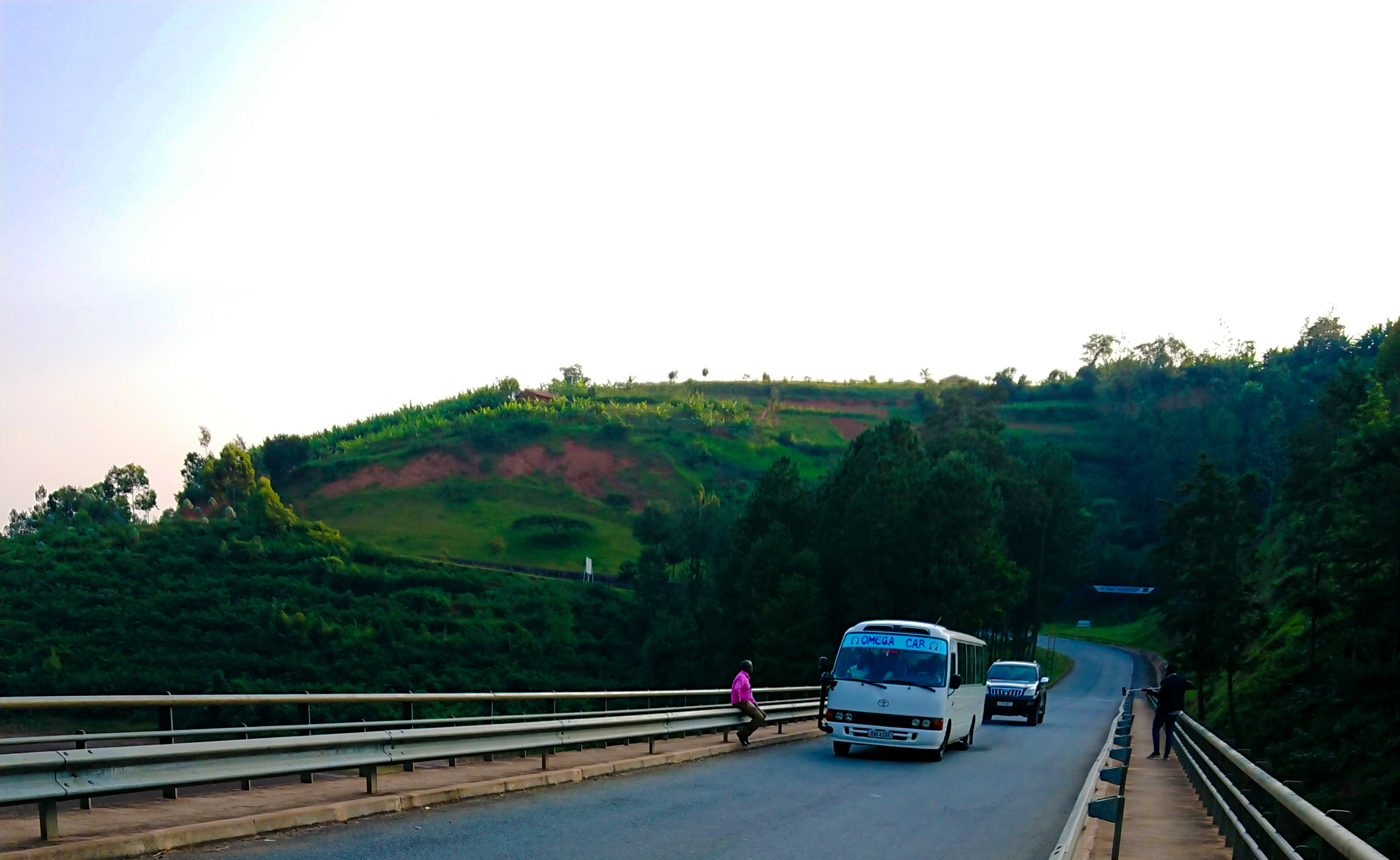 Taken: 19th June 2019 Program name: Adobe Photoshop CC 2017 Camera maker: Sony Camera Model: G8142 Daily work Dimensions: 3000 X1845 Width: 3000 pixels Height: 1845 pixels Horizontal Resolution 72dpi Vertical Resolution 72dpi Bit depth 24 F-stop f/2 Exposure time 1/320sec ISO speed ISO-40 Focal length 4mm Photometric interpretation: RGB This is an image with the theme "Africa on the Move or Transport" from: Rwanda